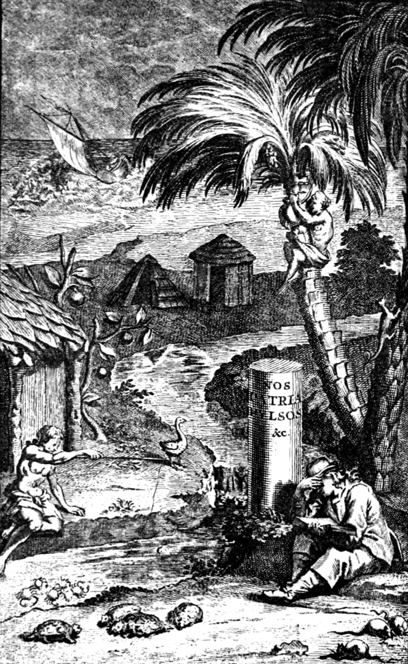 From Leguat, François (1891), The voyage of François Leguat of Bresse, to Rodriguez, Mauritius, Java, and the Cape of Good Hope. 2 Volumes., Edited and annotated by S. Pasfield Oliver, London: Hakluyt Society. It is a facsimile of the frontispiece of: Leguat, François (1708), Voyage et avantures de François Leguat & de ses compagnons en deux isles desertes des Indes Orientales. 2 Volumes., London: Mortier. Shows his settlement in Rodrigues, with tortoises, rats, crabs, a Rodrigues Solitaire and a lizard on a palm trunk. The tortoises are evidently this small species with the domed carapace, the Domed Rodrigues Giant Tortoise.